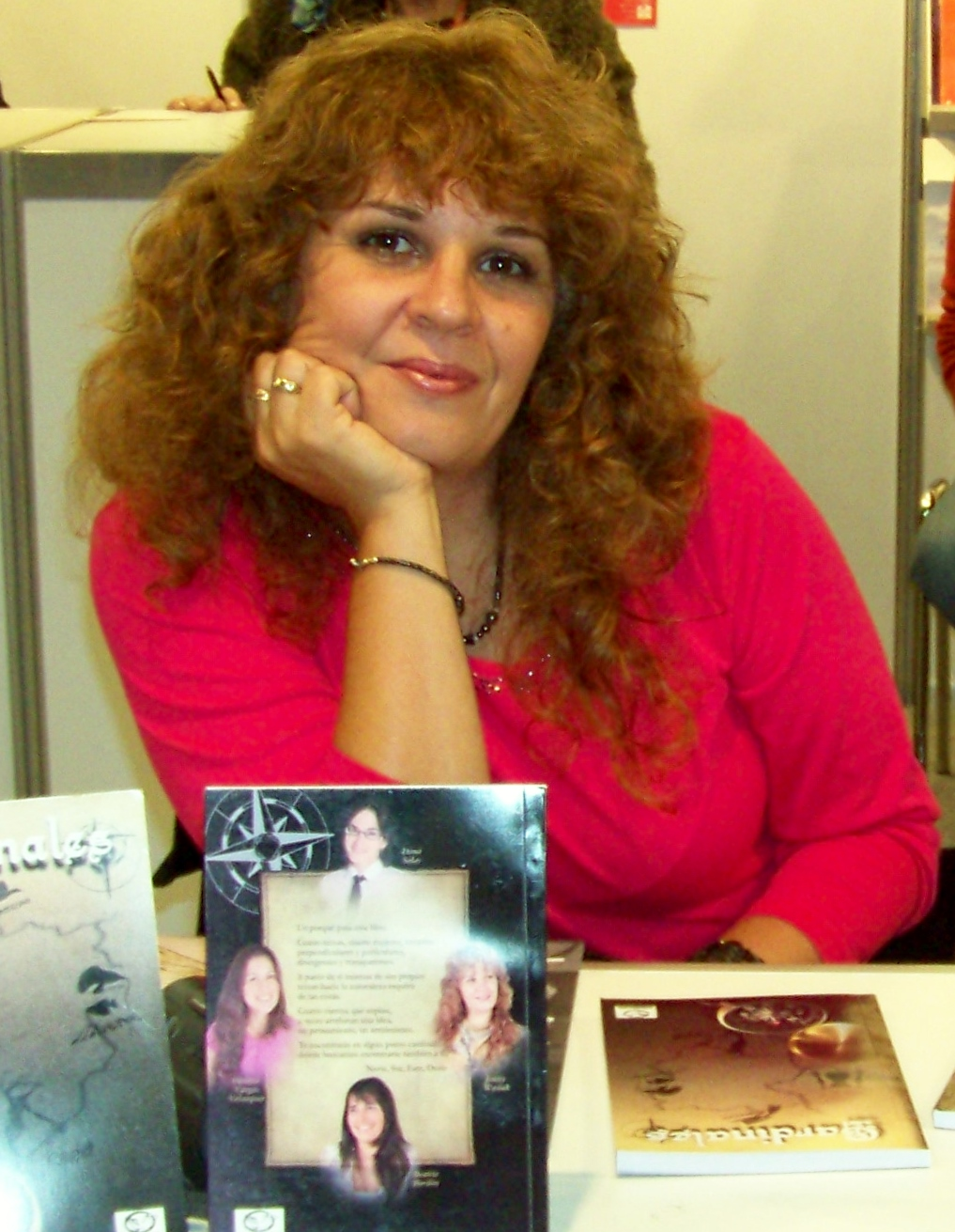 Jenny Wasiuk is an Argentine poet and writer from Misiones Province.